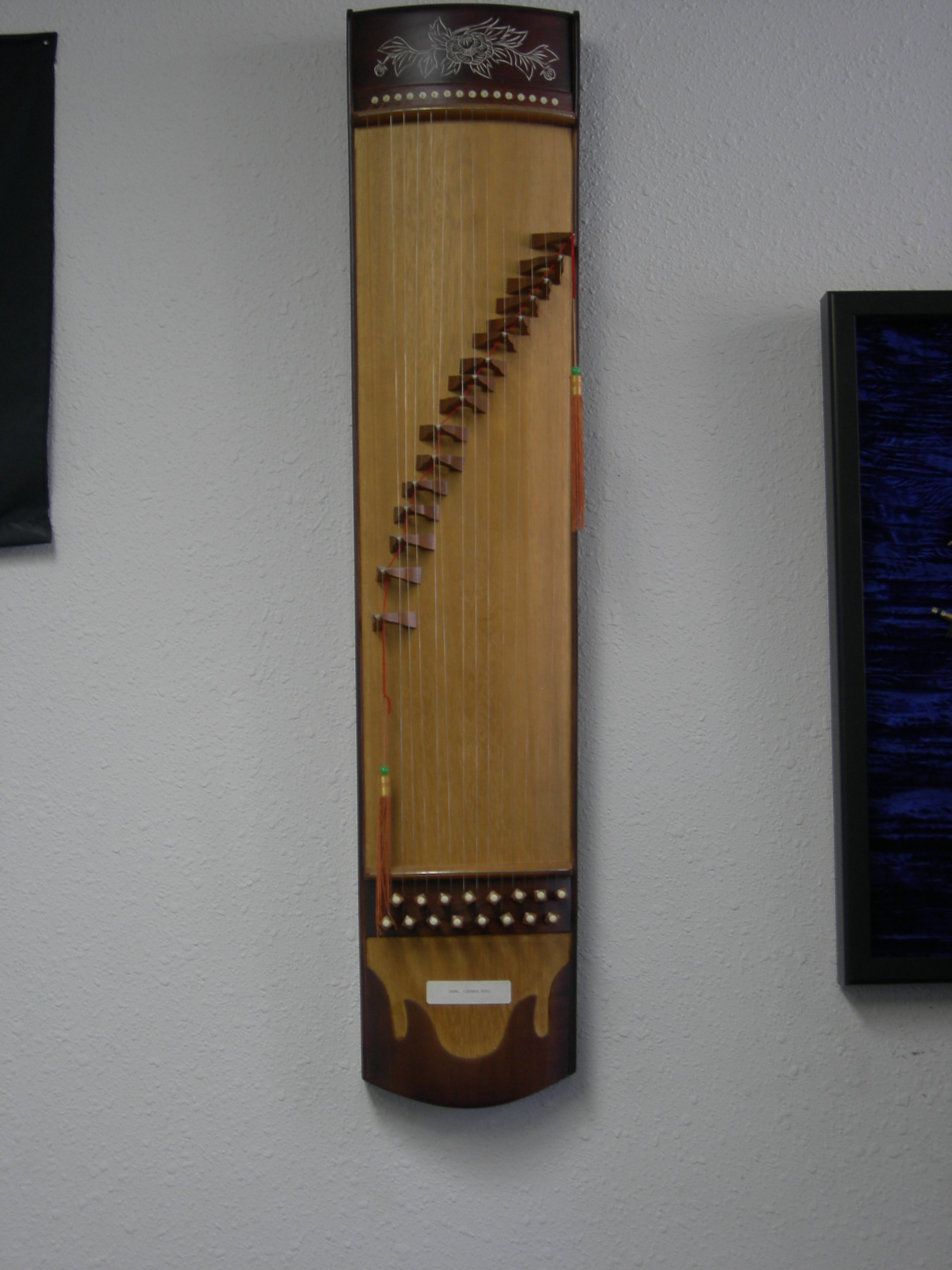 Guzheng (Chinese zither with bridges) in the collection of Petosa Accordions, Seattle, Washington, on display in their shop.